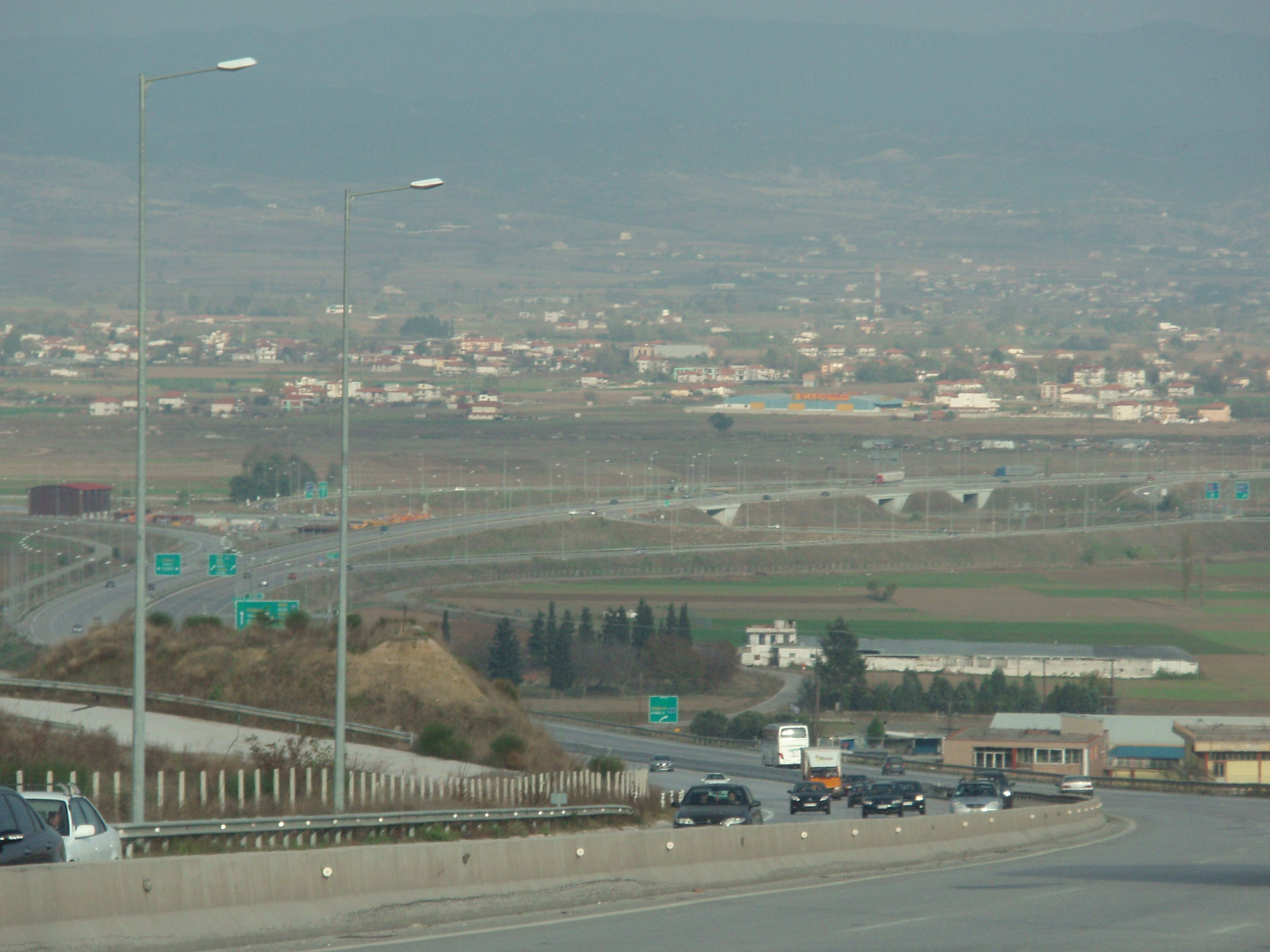 A2 motorway (Egnatia Odos), Greece. Section Thessaloniki-Langadas-Asprovalta. Interchange with A25 motorway (Langadas-Serres-Promachonas) is visible.